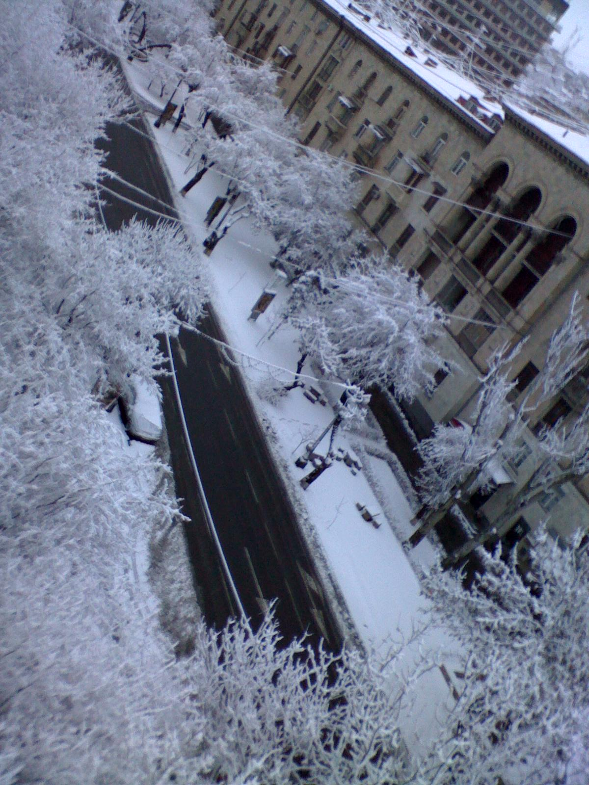 snowed under Abovyan street in Yerevan from Vahag's balcony